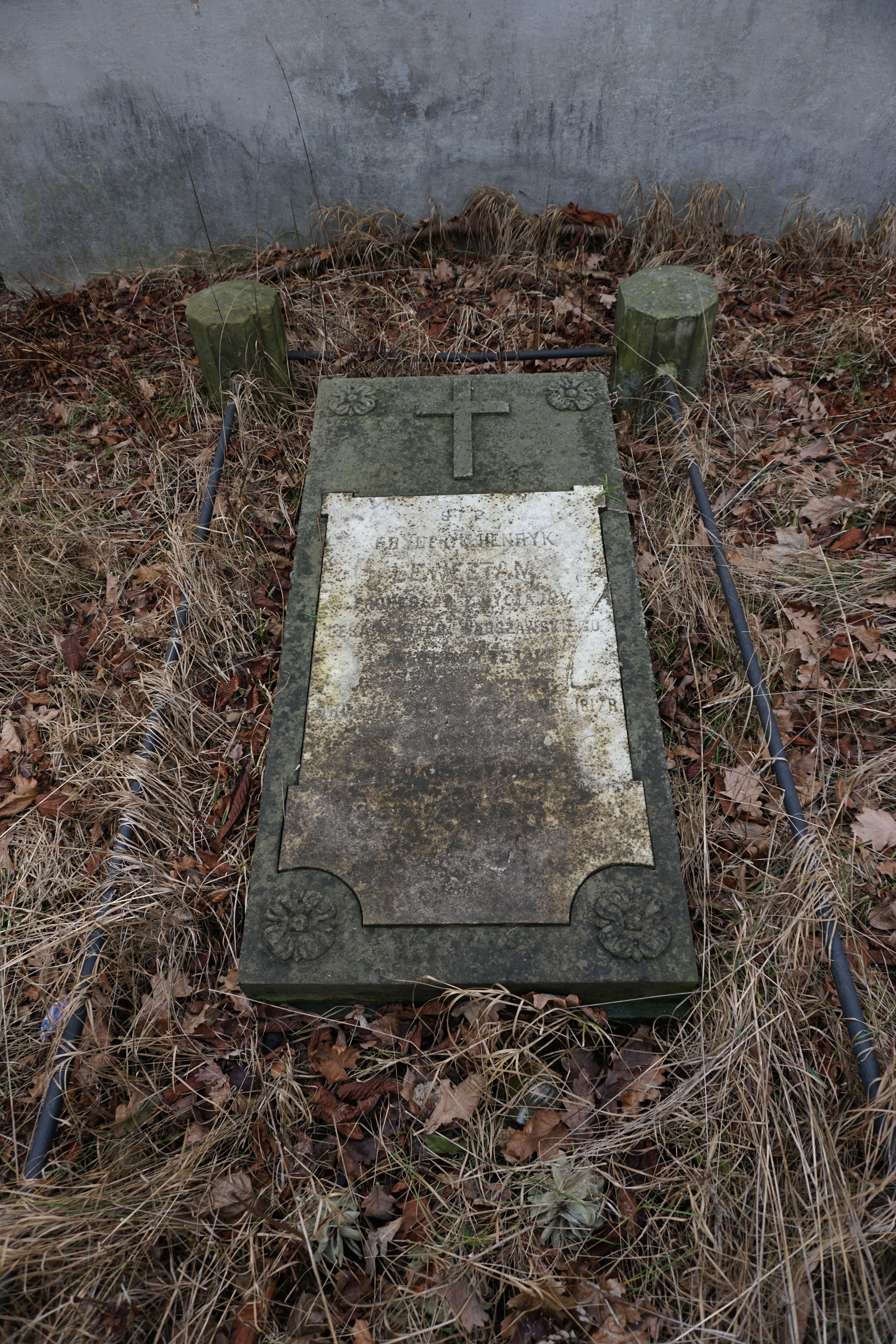 The grave of Frederick Lewastam at the Evangelical-Augsburg cemetery in Warsaw (avenue 3, Grave 5)